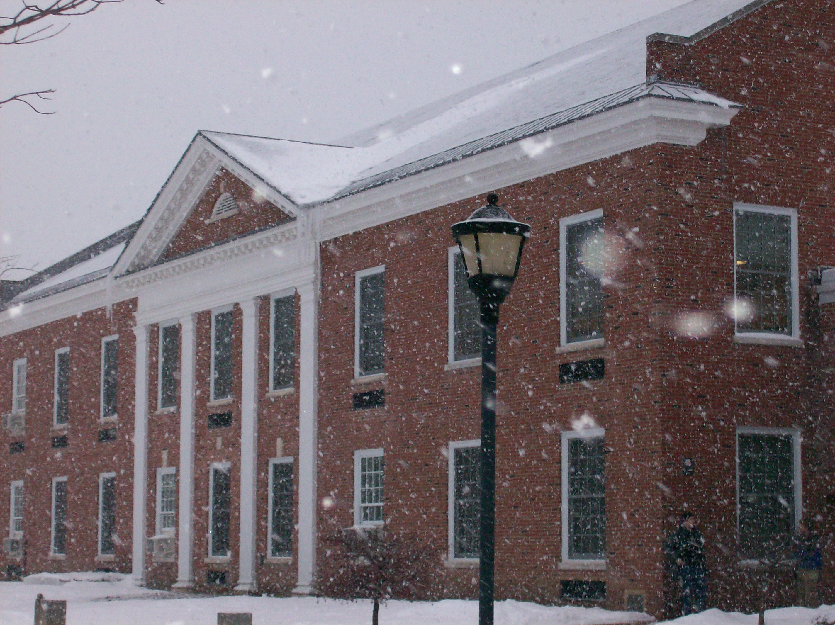 State University of New York at Potsdam's Carson Hall in Potsdam, New York.